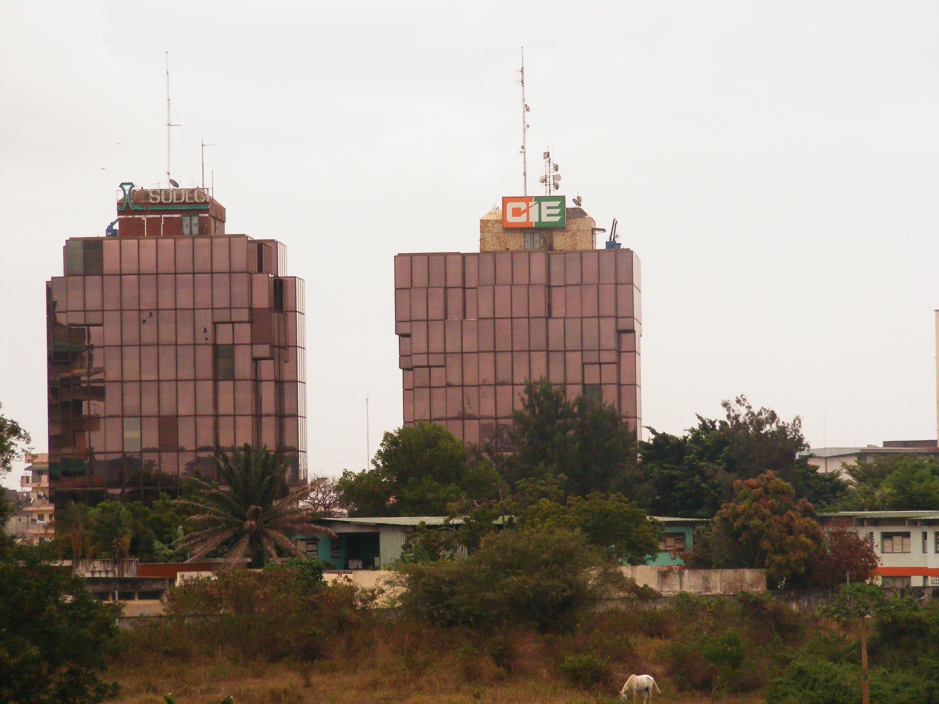 Buildings hosting the offices of the Society for water distribution in Côte d'Ivoire and of the Ivorian Electricity Company.